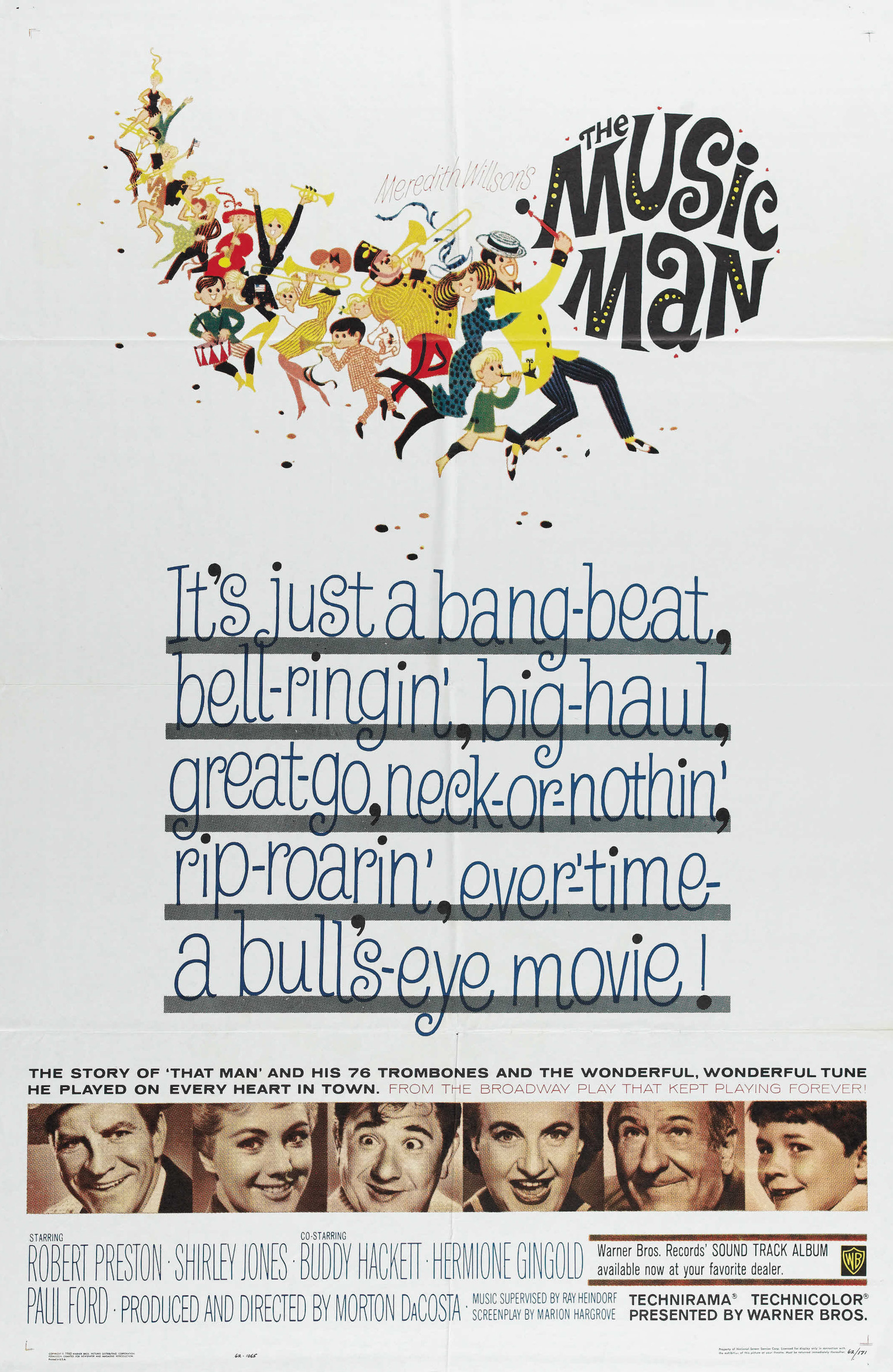 Theatrical release poster for the 1963 film The Music Man, an adaptation of the 1957 musical of the same name. One-sheet size.